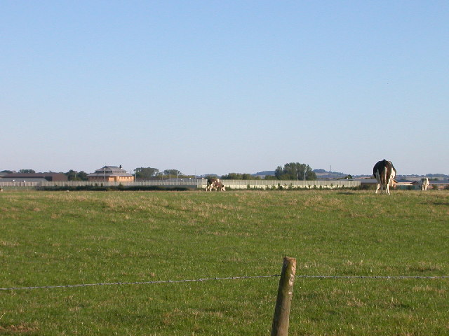 Onley. Field south of motorway bridge showing Prison perimeter fence in SP5170.